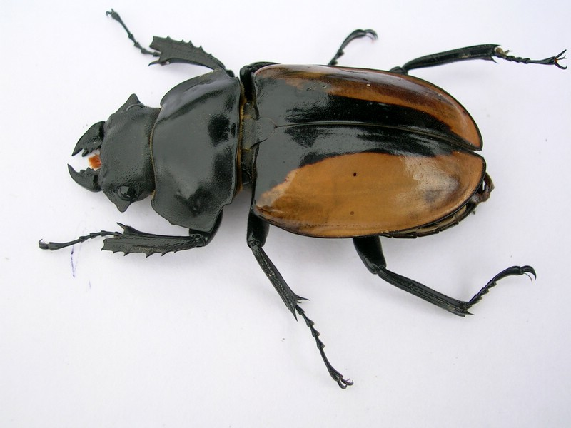 Lucanidae (stag beetle) genus Odontolabis cuvera found at Talakaveri, Coorg (ID courtesy :Doug Yanega user:Dyanega)